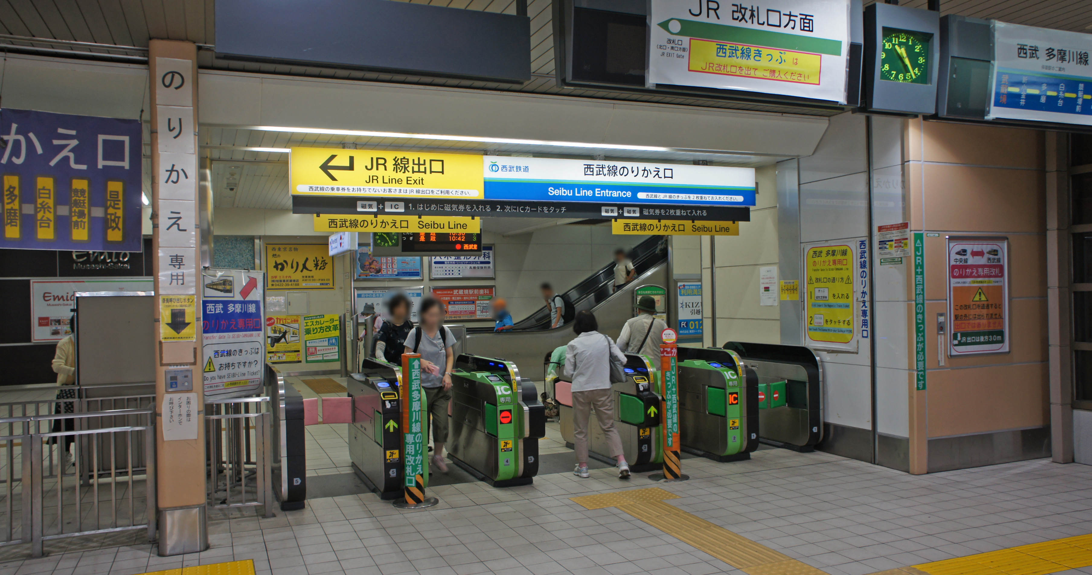 JR Line・Seibu Line Transfer Gates of Musashi-Sakai Station